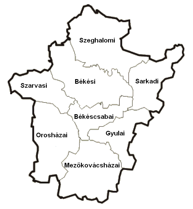 Békés County in Hungary